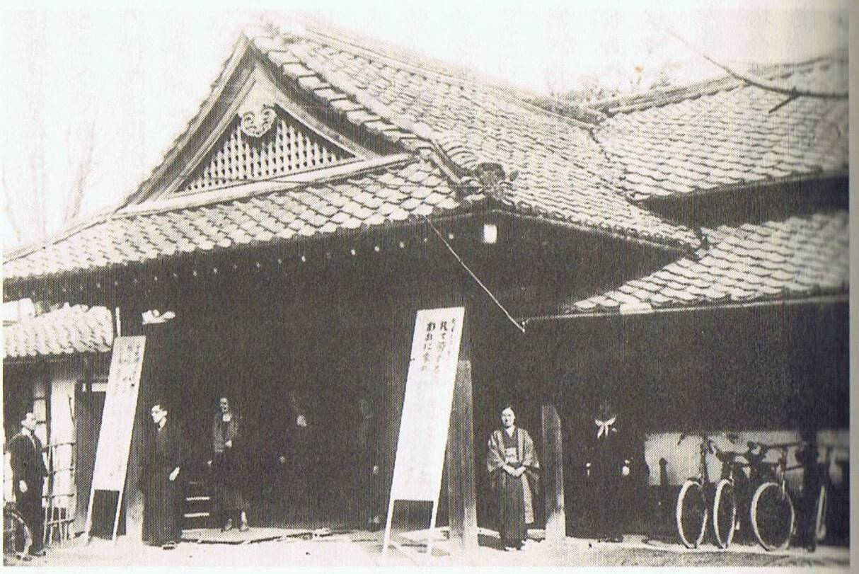 Mino Mission